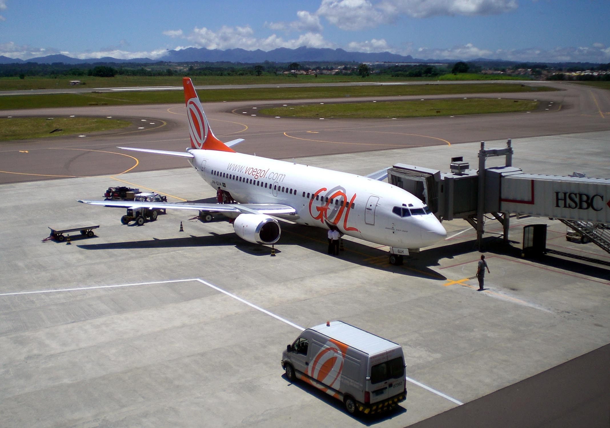 Gol, a Boeing 737-300, at the Afonso Pena International Airport